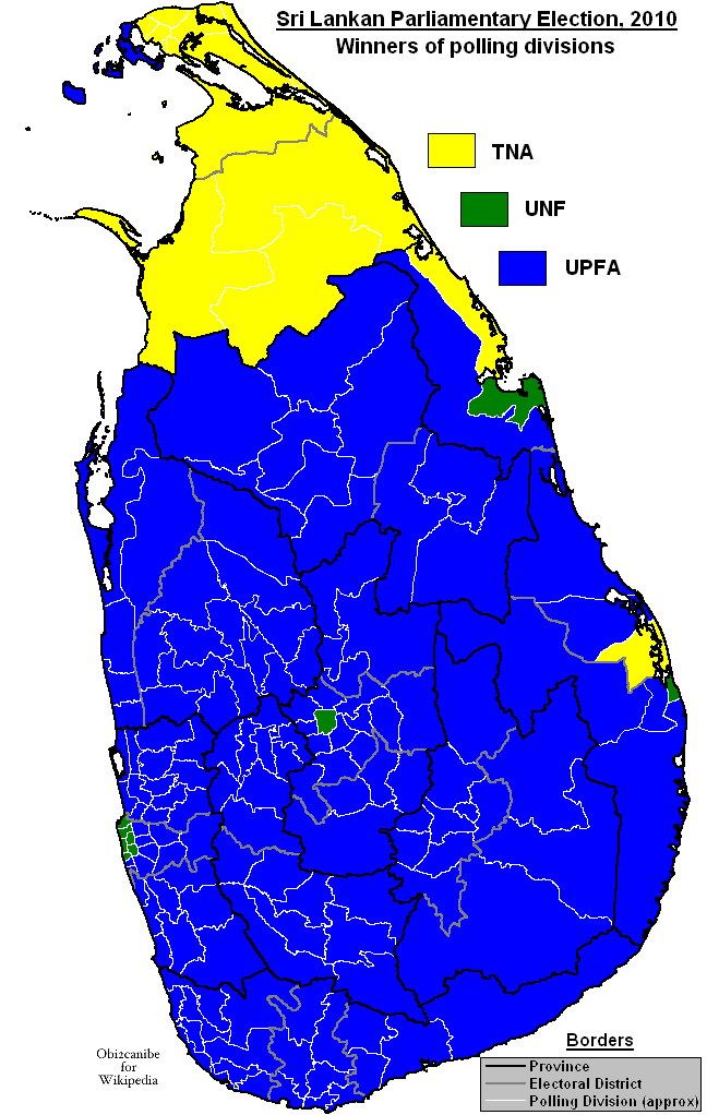 Map showing winners of polling divisions in the Sri Lankan parliamentary election of 2010.